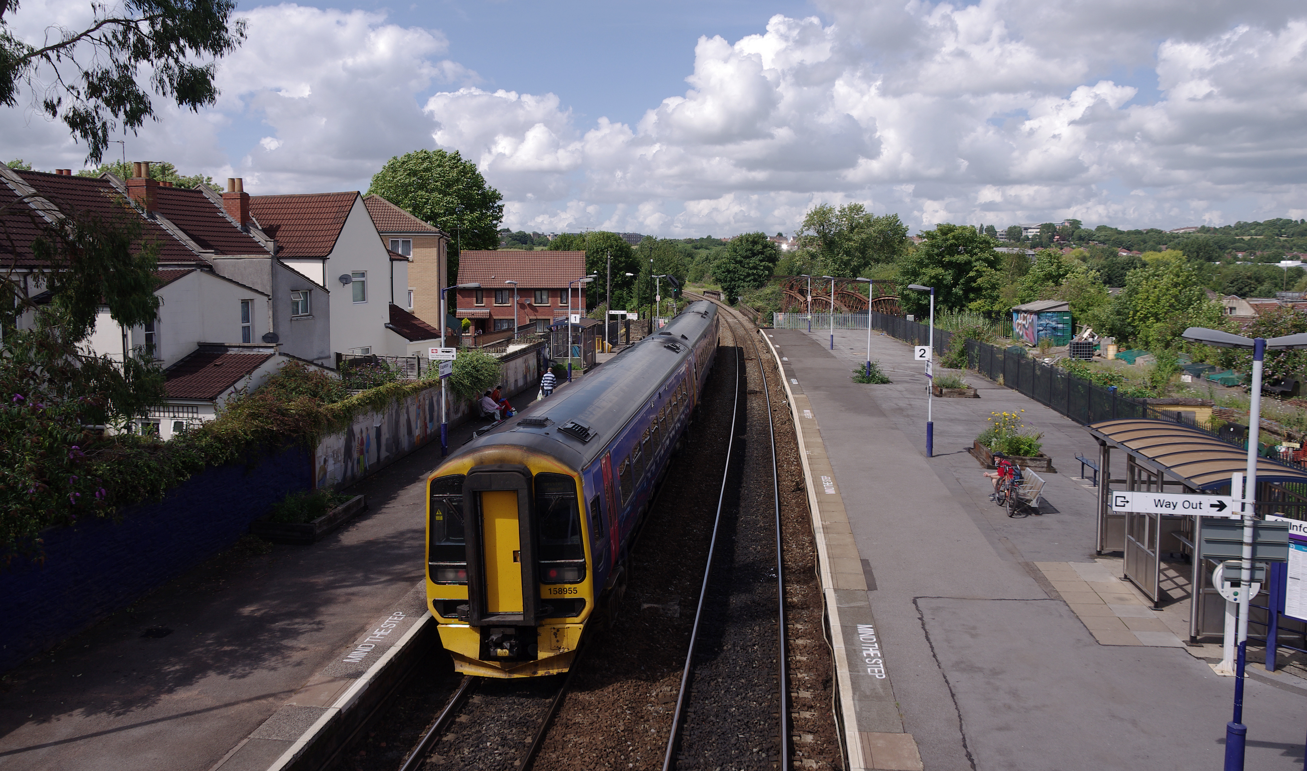 First Great Western class 158 "Express Sprinter" DMU 158955 calls at Stapleton Road with a service to Bristol Parkway.